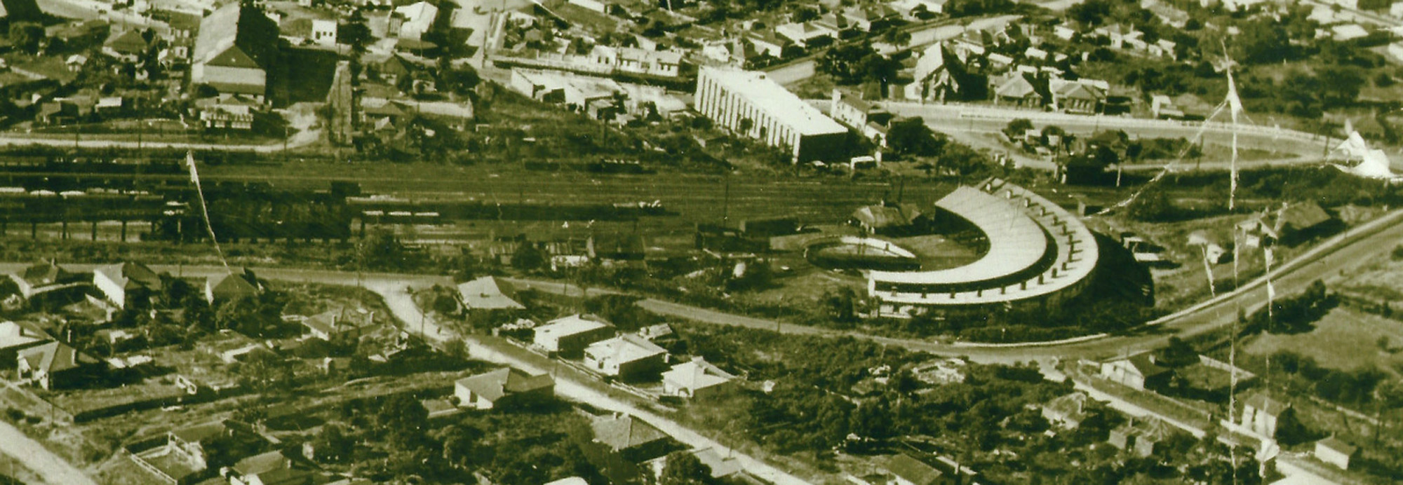 Thirroul Locomotive Depot 1948